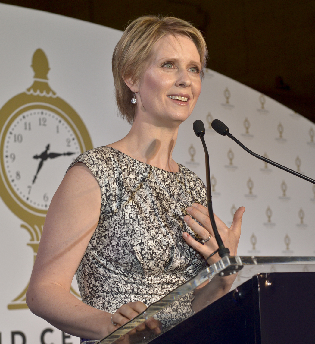 Grand Central Terminal's official 100-year anniversary celebration took place on February 1, 2013. This photo shows TV star and noted New Yorker Cynthia Nixon. Photo: Metropolitan Transportation Authority / Patrick Cashin